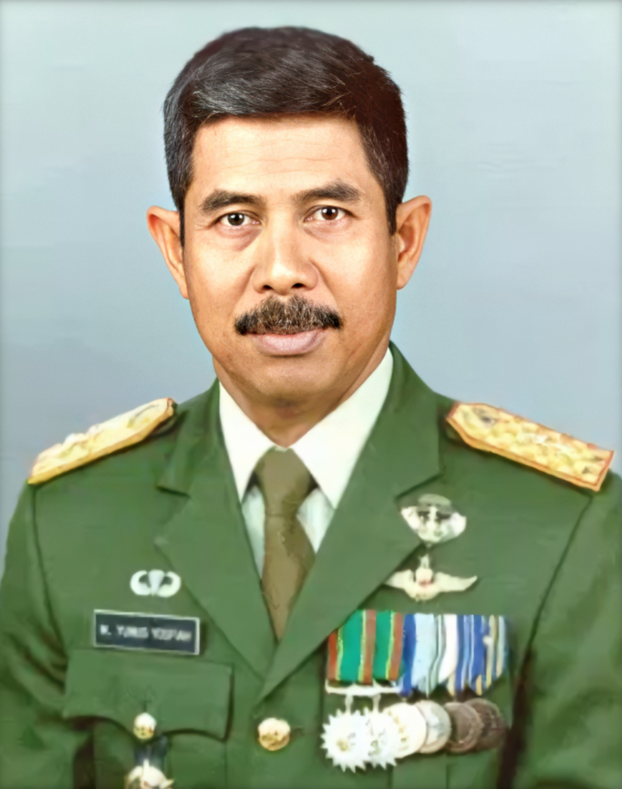 Major General Yunus Yosfiah as the commander of Pussenif